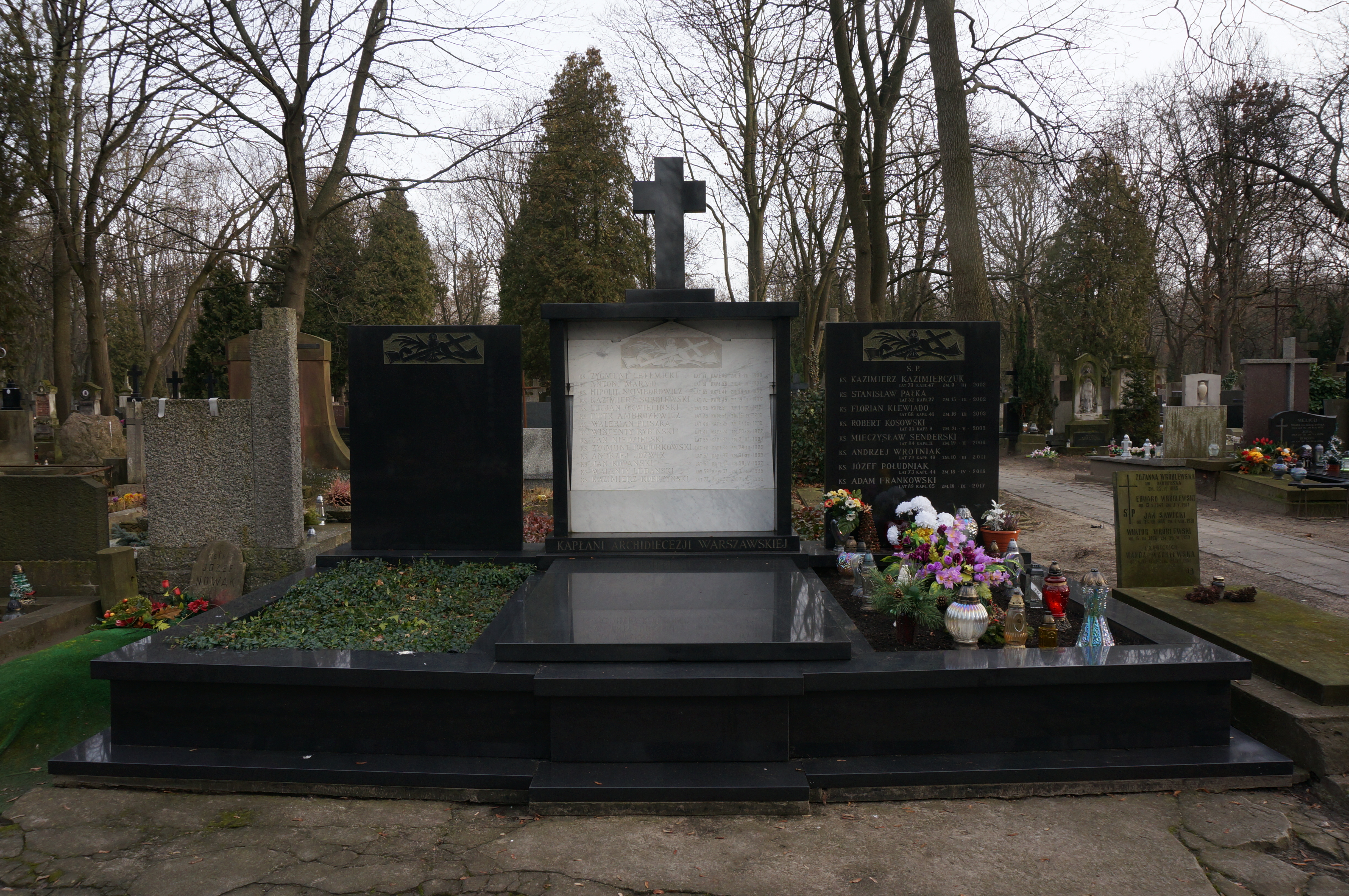 Tomb of priests of the Archdiocese of Warsaw at the Powązki Cemetery (section 203, row 5, 6, grave 26, 27, 28, 29)